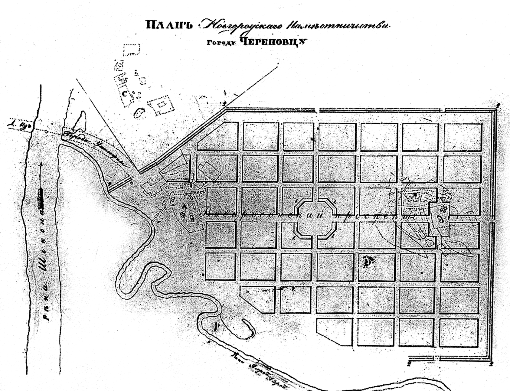 First Plan of Cherepovets